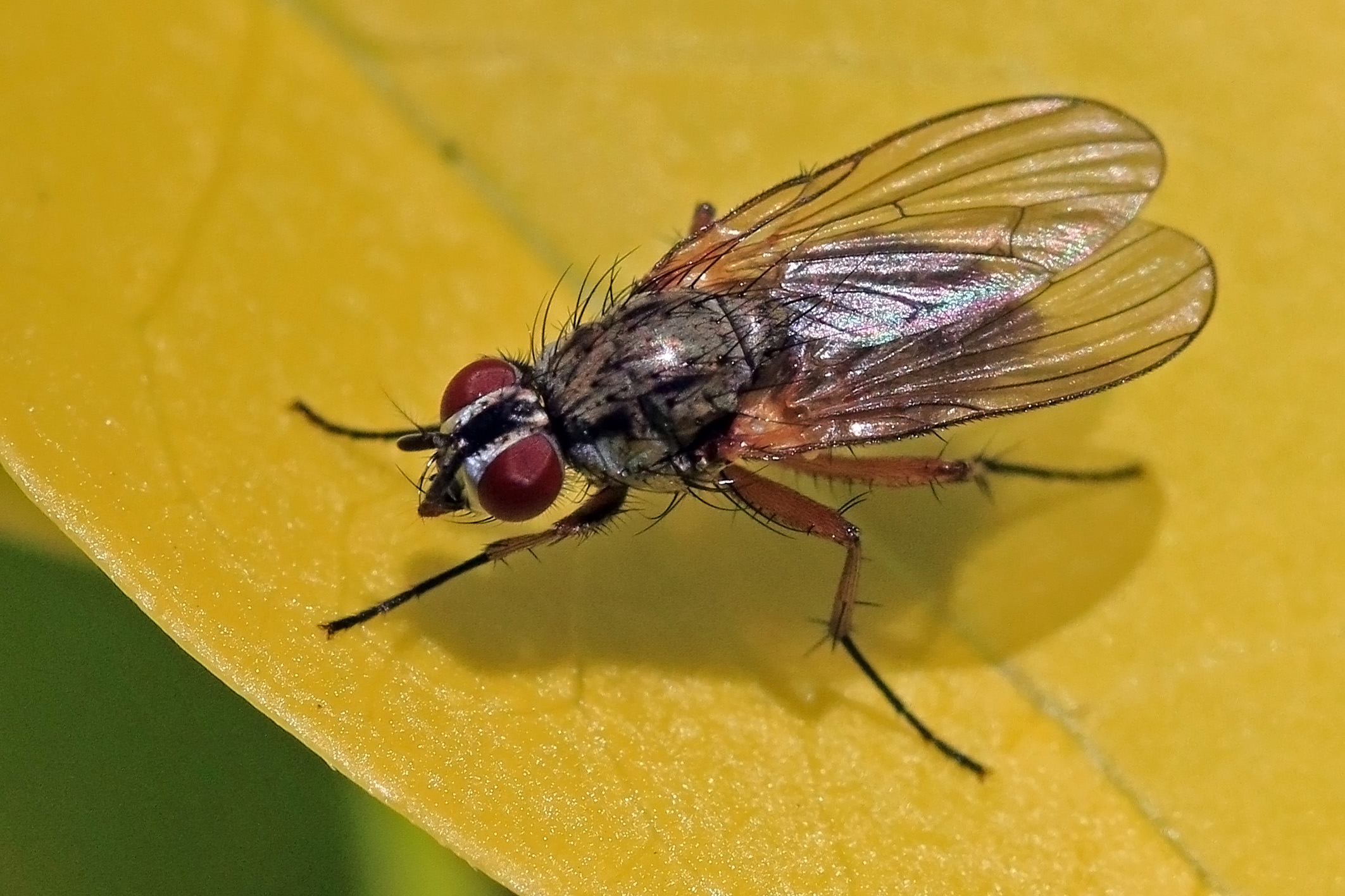 Root-maggot fly (Hydrophoria linogrisea), Oxfordshire